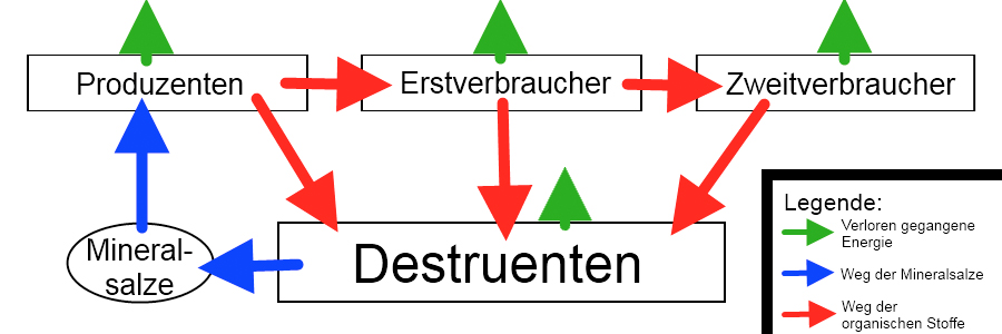 The material cycle and the energy flow in the ecosystem